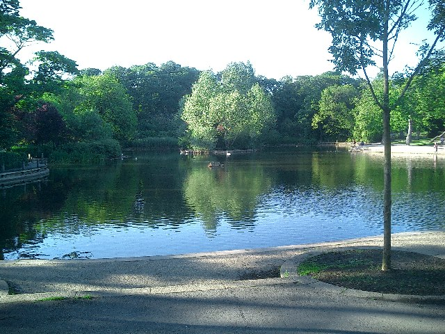 Ward Jackson Park Pond. Looking north on a warm summer evening.